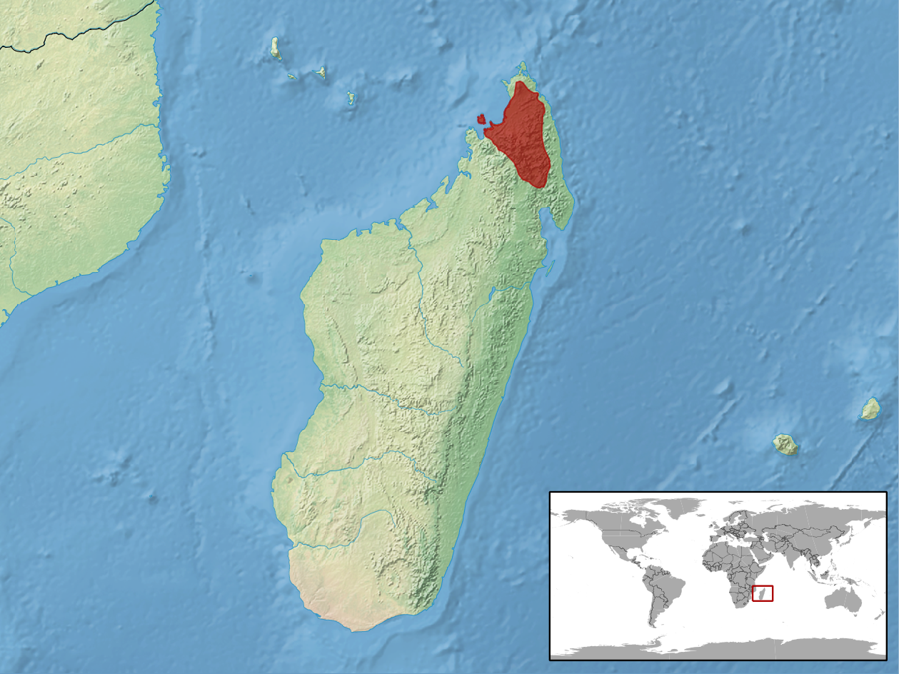 geographic distribution of Paracontias hildebrandti